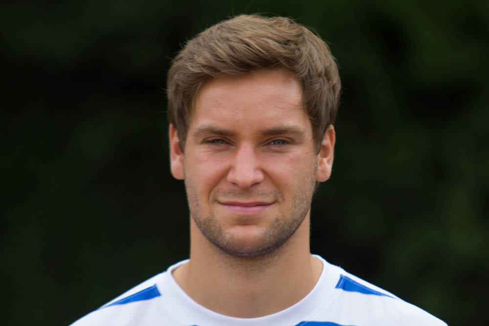 German football player Matthias Kühne, MSV Duisburg